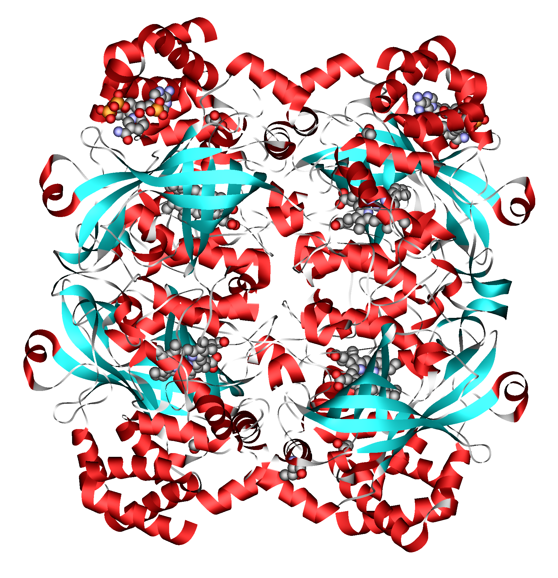 3d ribbon model of human catalase from PDB 1DGF. Ref.: C.D.Putnam et al. (2000). Active and inhibited human catalase structures: ligand and NADPH binding and catalytic mechanism.. J Mol Biol, 296, 295-309. PMID 10656833 [